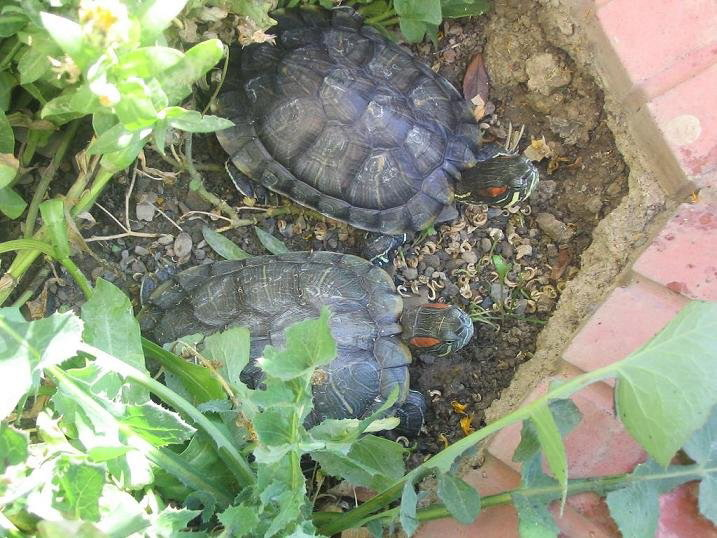 red eared slider turtles